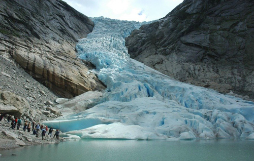 Brkdalenglaciersseracs